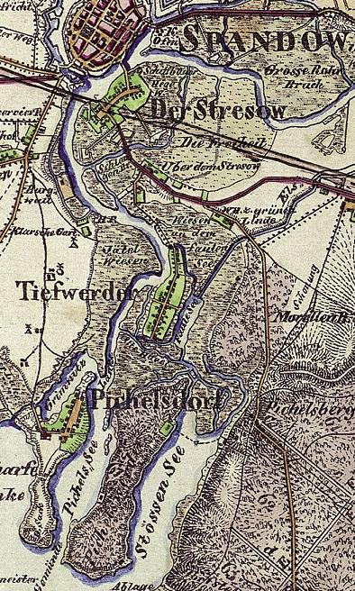 Village Tiefwerder 1842. Today part of Berlin-Spandau, Germany.